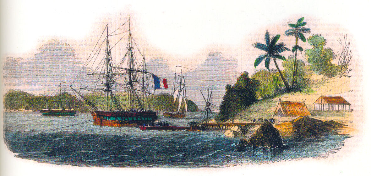 Drawing of a port at the Salvation Islands, off the coast of Kourou in French Guiana.